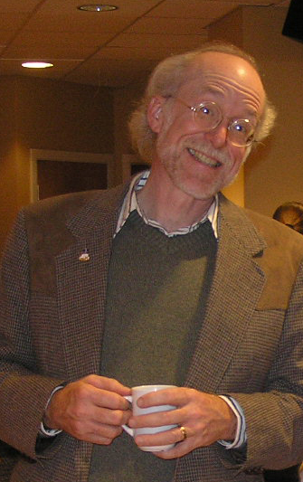 Don Rosa (2004)